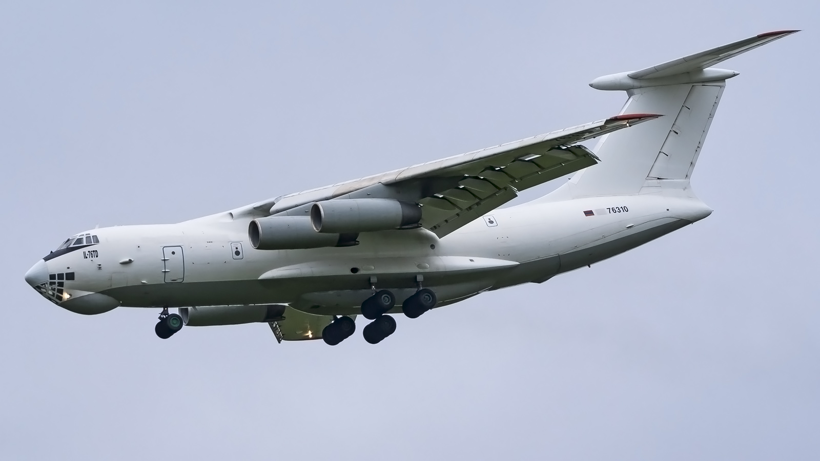 76310 Ilyushin 76TD Armenian Air Force VKO | UUWW